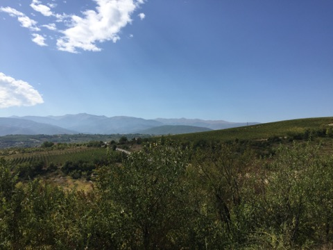 Vineyards in village of Rakotinici